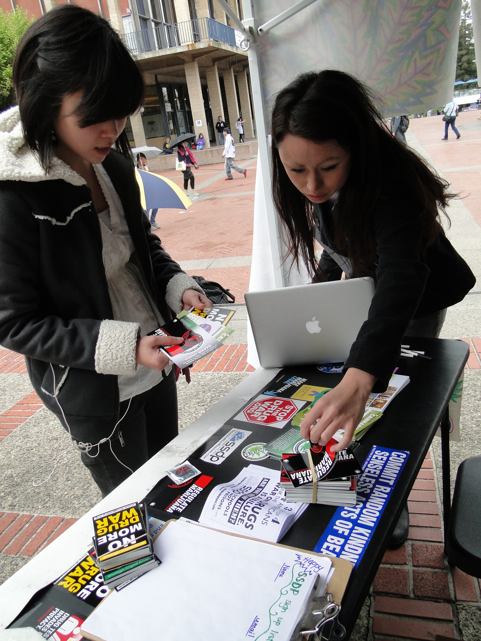 Cal SSDP member, Sasha, distributes free fliers and stickers to an interested student at the annual 4/20 rally at U.C. Berkeley.